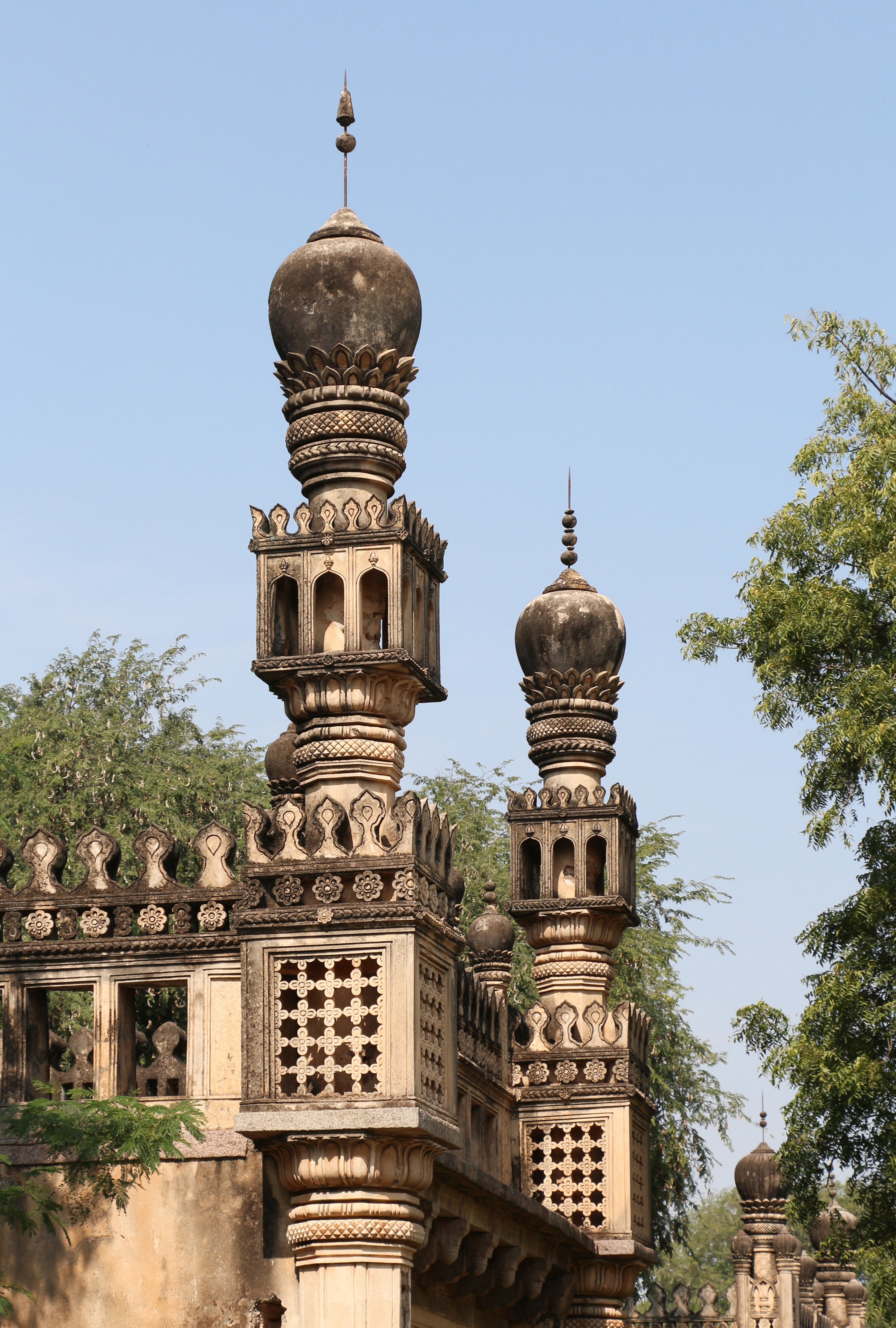 Minarets of a Qutb Shahi tomb, Hyderabad, India